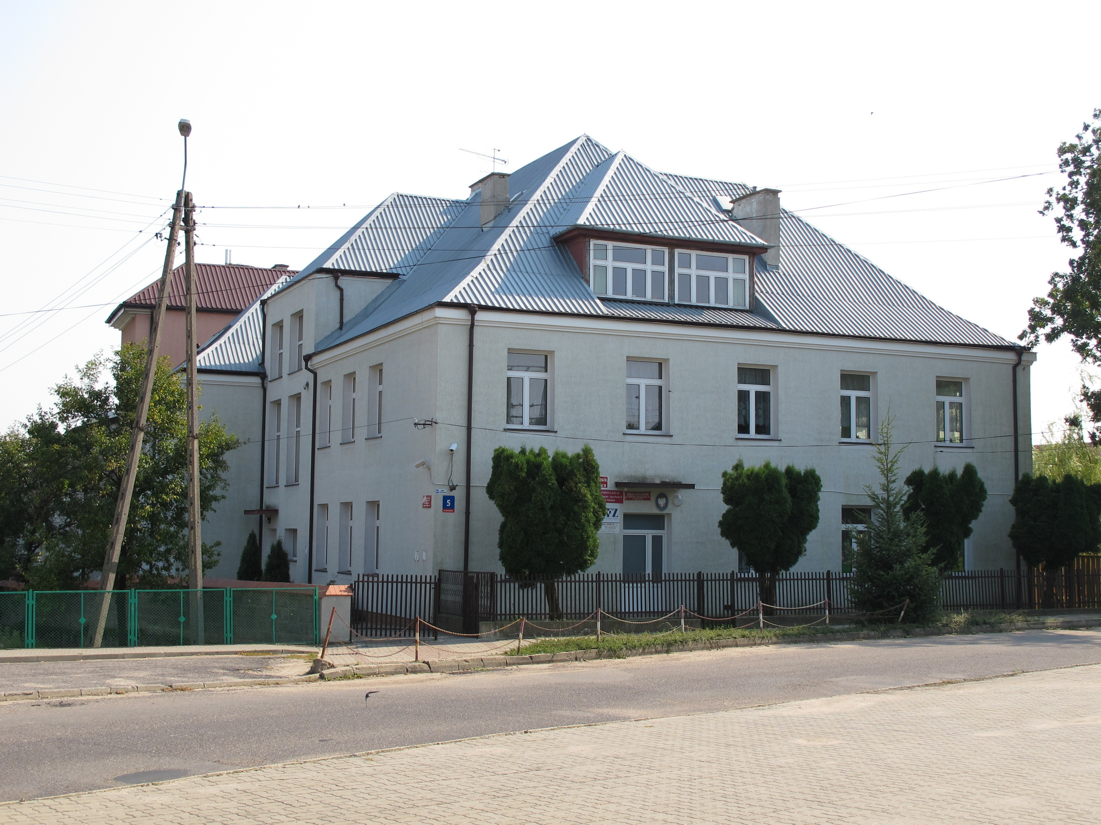 Elementary and middle school by Kościelna 5 street in Sokoły village, gmina Sokoły, podlaskie, Poland